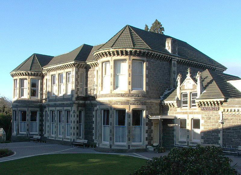 Photograph of Marinoto House, Maori Hill, Dunedin, New Zealand.